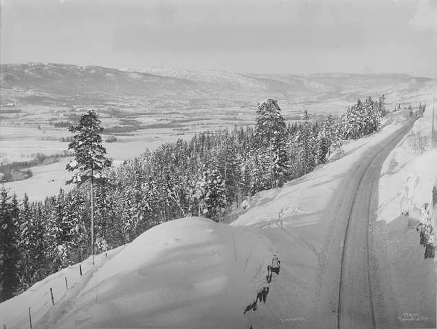 Drammenbanen in Lieråsen, Norway.